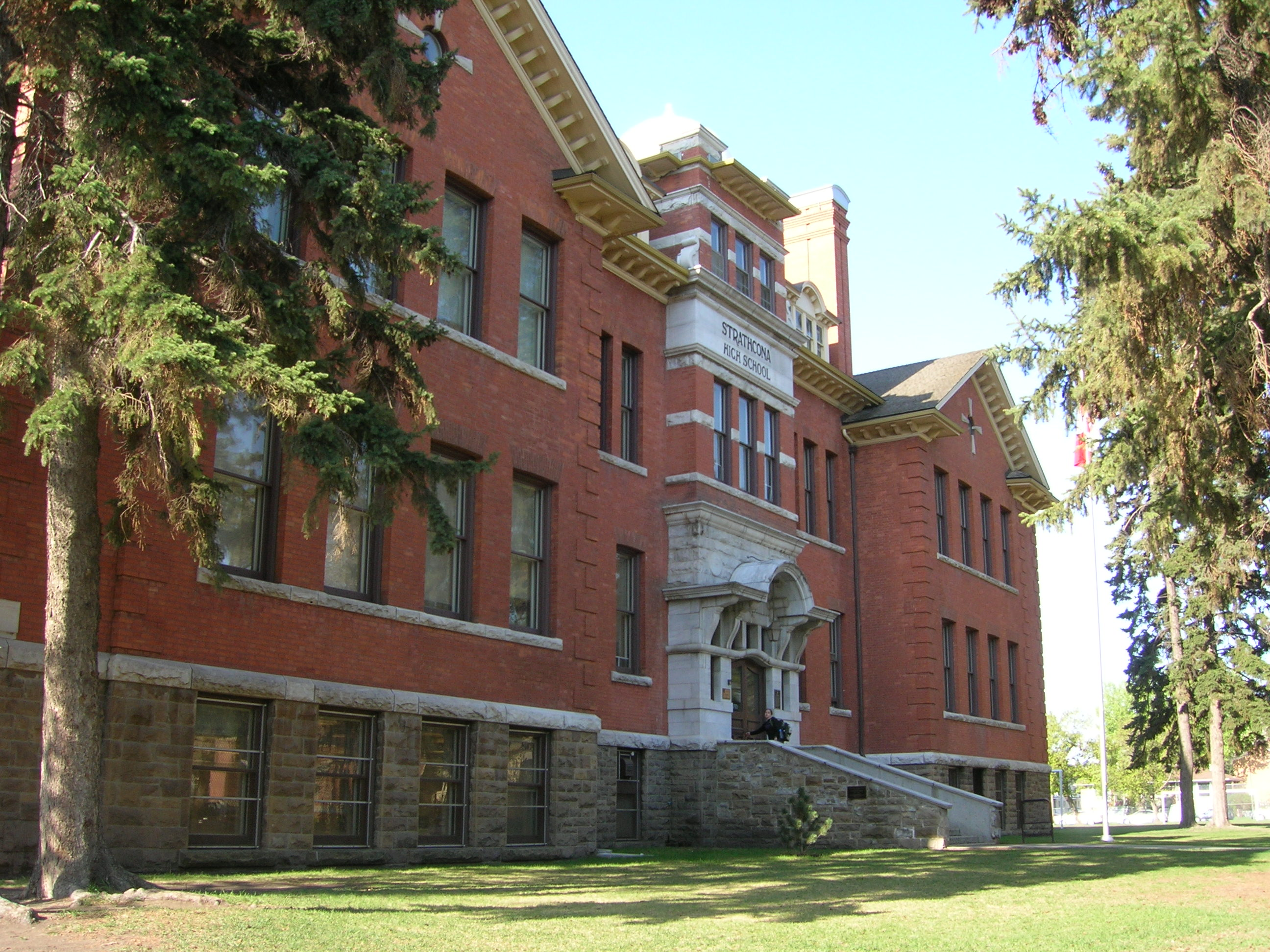 The exterior main entrance of Old Scona Academic Senior High School (OSA), in Edmonton, Alberta, Canada. Taken in the spring of 2006.